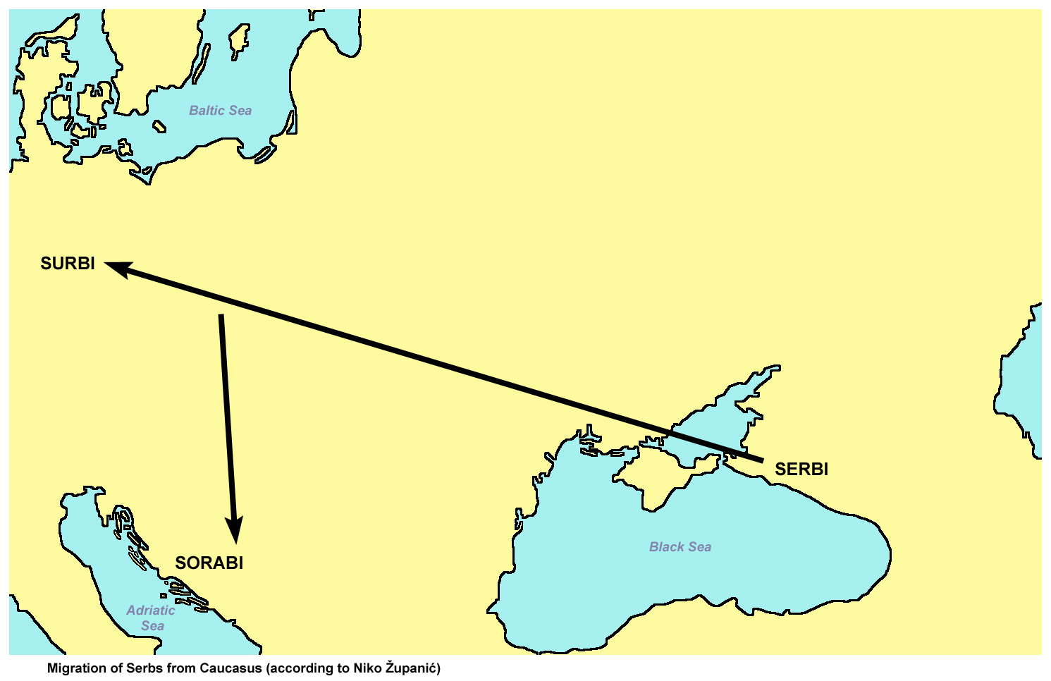 Migration of Serbs from Caucasus (according to Niko Županić).